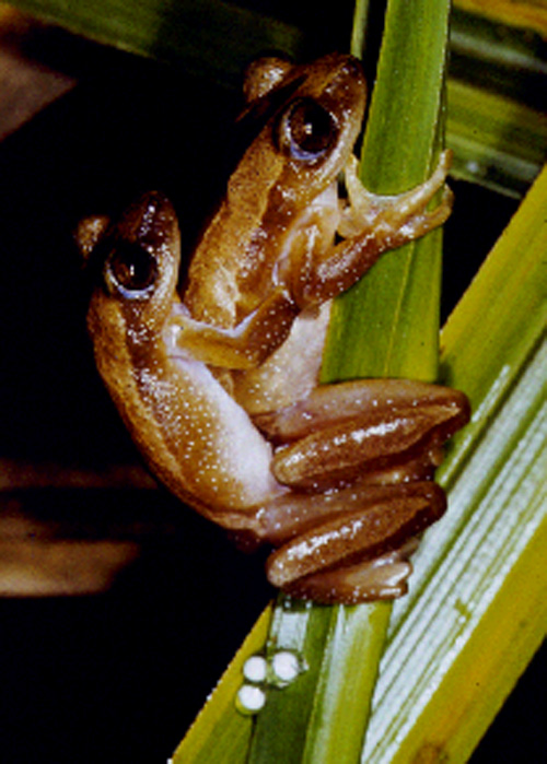 Afrixalus fornasini